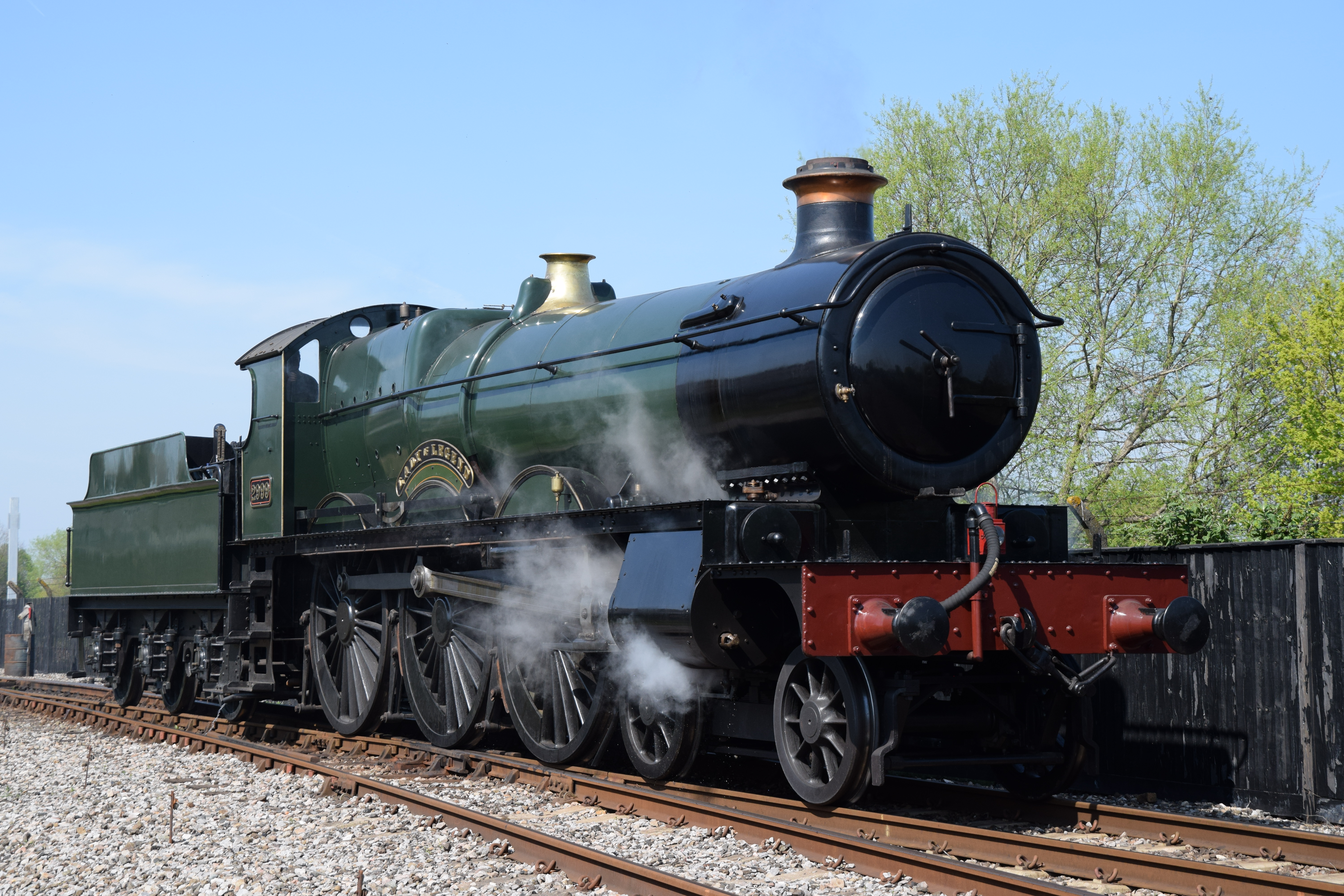 The recently completed replica of GWR Churchward ‘Saint’ or ‘29XX’ Class 4-6-0 No.2999 ‘Lady of Legend’ with straight running plate and vertical front drop end, inside steam pipes, long cone boiler, top feed and 3,500 gll tender at the Great Western Society, Didcot Railway Centre, 20 April, 2019. It is newly painted in what appears to be in GWR unlined Brunswick Green (officially Middle Chrome Green) livery as it appeared in WWII, although I suspect there was no time to apply lining as the GWR crest and name is yet to be applied also. The loco was rebuilt from GWR Collett ‘Hall’ or ‘49XX’ Class No.4942 ‘Maindy Hall’ and some parts from two original ‘Saints’. The ‘Saint’ Class was probably the most influential express/mixed traffic steam locomotive design in the UK in the 20th Century. Very much influenced by American practice (Churchward was friends with A W Gibbs of the Pennsylvania RR), the taper boiler, belpaire firebox, outside cylinders and piston valves with integral cast steel saddle for the drumhead smokebox, the high running plate and stark lines (compared with the conventional Victorian/Edwardian style) was completely at odds with British practice at the turn of the century. After a prototype was built in 1902, two further much redesigned prototypes followed in 1903, one temporarily being converted to a 4-4-2 for comparison purposes. Production based on the latter two prototypes followed in 1905-13 (including 13 built as ‘Scott’ Class 4-4-2’s but later converted to 4-6-0’s), a grand total of 77 being completed. The later ‘Hall’, ‘Manor, ‘Grange’, ‘Modified Hall’ and ‘County’ Class 4-6-0’s were a direct development and they in turn influenced the LMS ‘Black Five’ and Standard Class 5 and 4 4-6-0’s. The ‘Saints’ were withdrawn in 1931-53, a very long lived class.